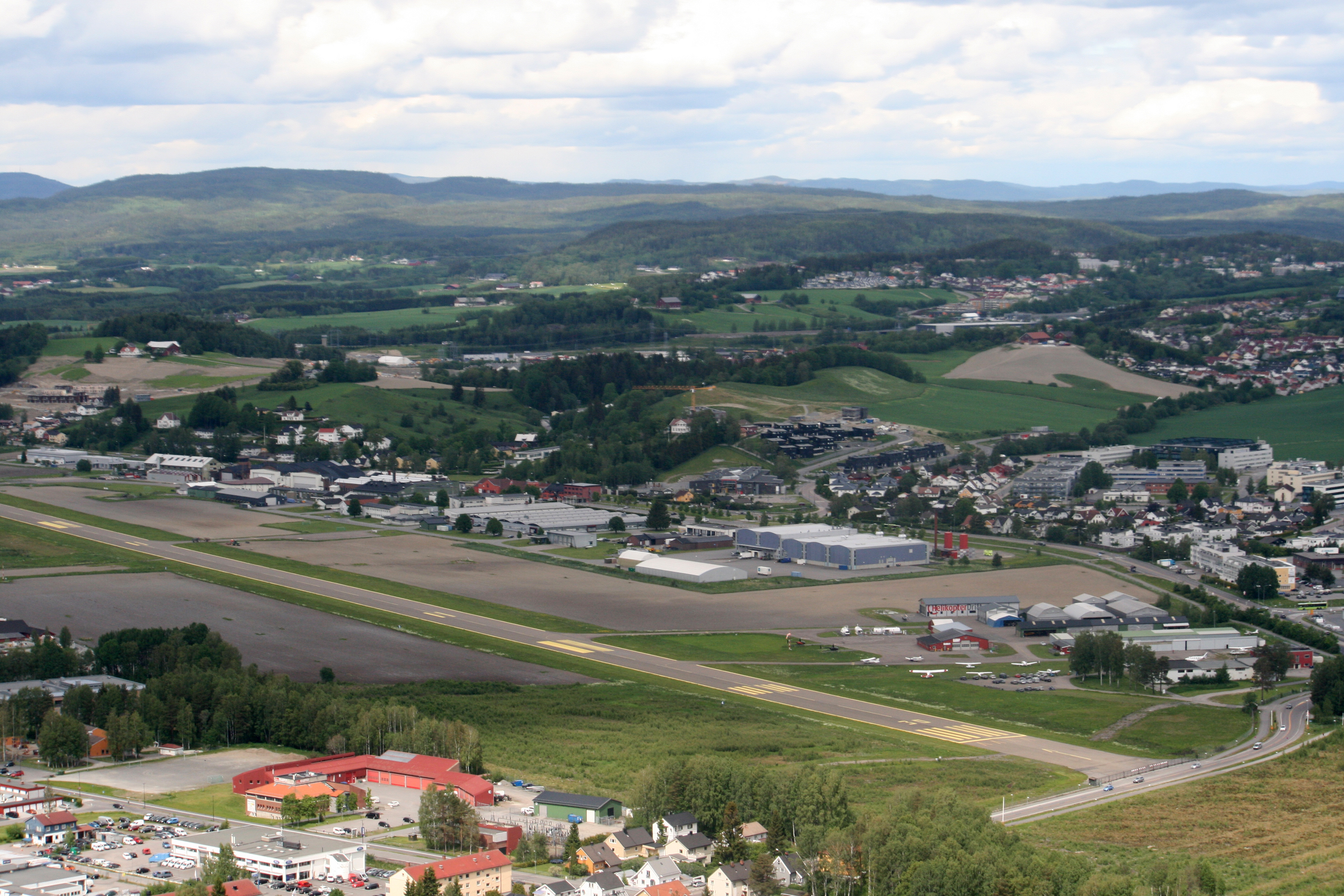 Aerial photograph from June 14th, 2015.